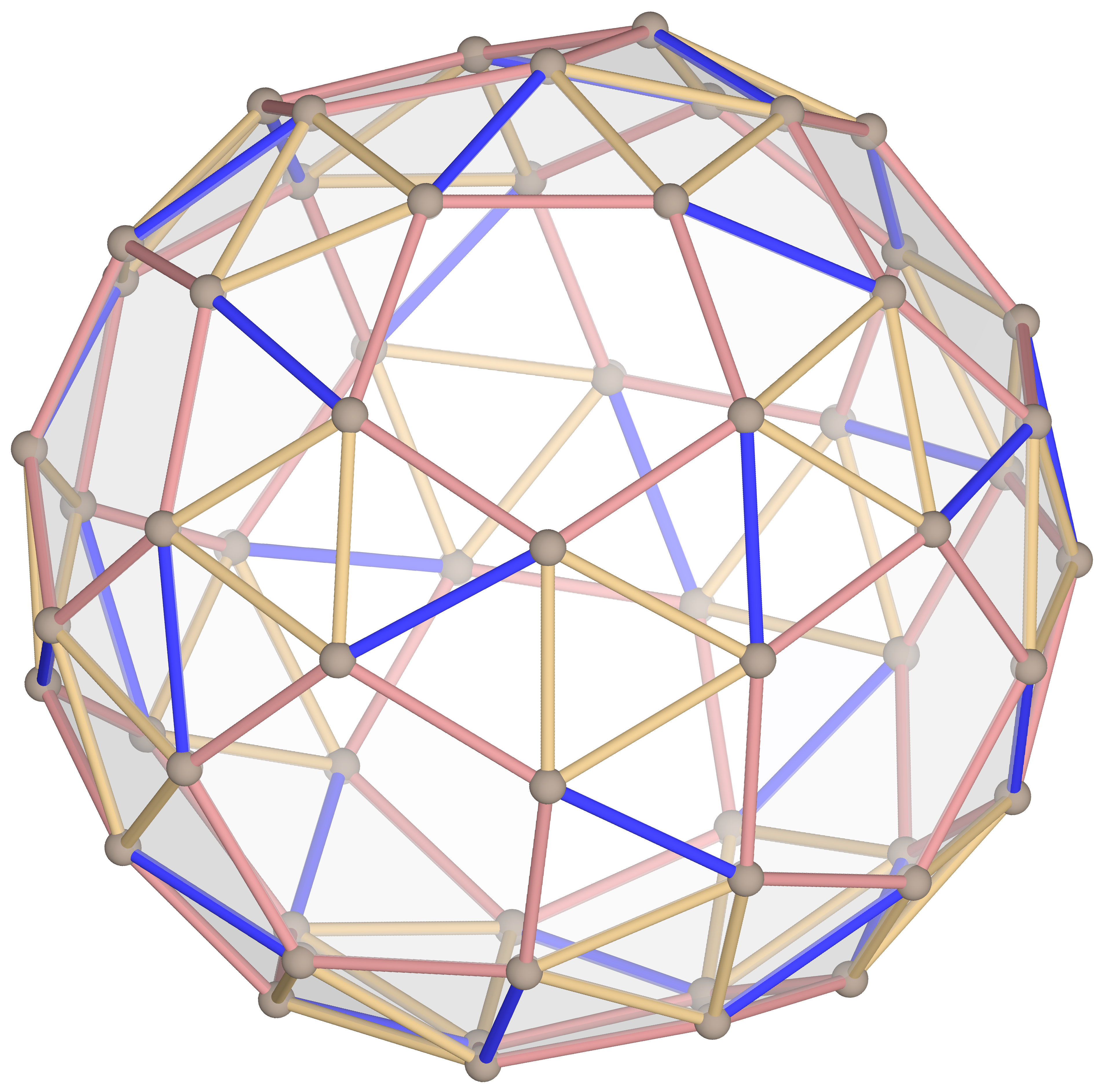 similar view of the snub cube snub dodecahedron (left) from vertex Image set Platonic, Archimedean and Catalan solids with direction colors Part of Polyhedra with direction colors (image set) This polyhedron has a form of octahedral symmetry. There are 12 blue elements. This set contains renderings of Platonic, Archimedean and Catalan solids. For most of them the sphere shown on the right is the polyhedrons midsphere. The geometric properties of these images have been calculated with Python, and they have been rendered with POV-Ray. The source code used can be found on GitHub. The POV-Ray sources are in this folder. This image was created with POV-Ray. This PNG graphic was created with Python. The images in this set have consistent sizes and angles. Please do not overwrite them. If this image has a margin, there is probably a variant without it — or it can be uploaded. (Filename with " max" at the end.)